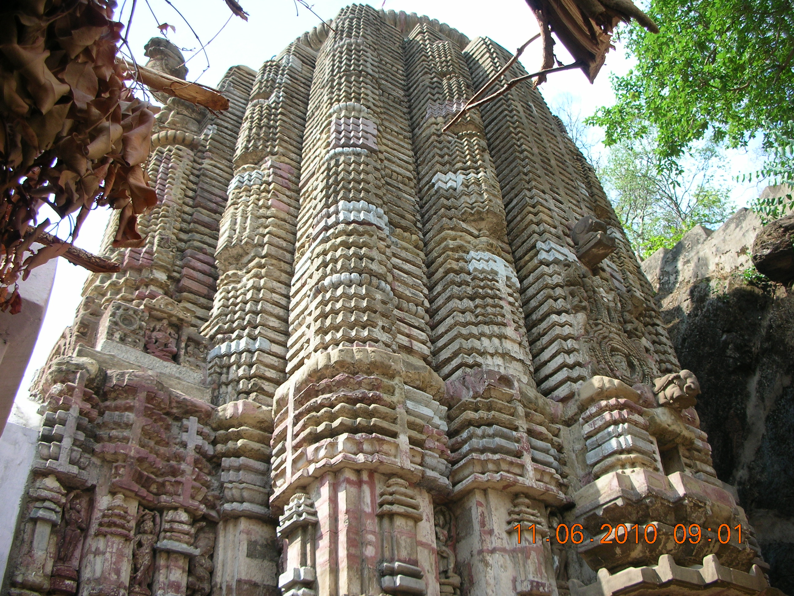 Main Shrine of Nrusinghnath Temple